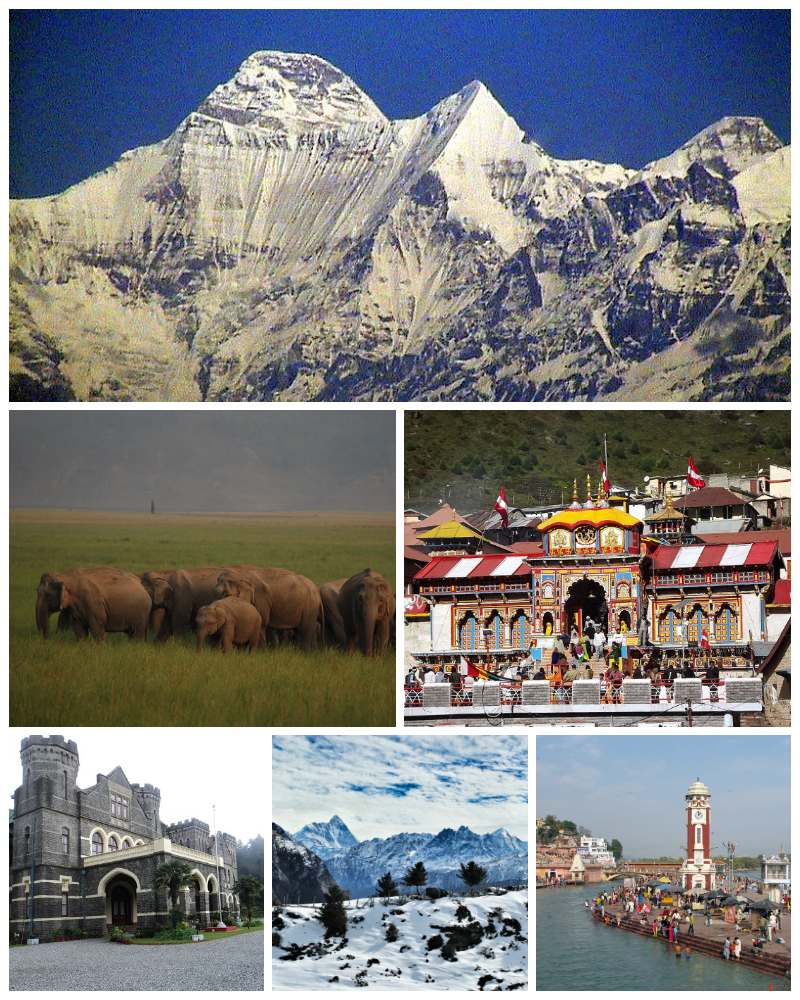 This file is a montage made from existing files available on Commons. The files used areː File:An elephant herd at Jim Corbett National Park.jpg by curiouslog File:Auli, India.jpg by Amit Shaw File:Badri 18.JPG by Guptaele File:Clock Tower, at Har-ki-Pauri, Haridwar.jpg by mckaysavage File:Governor’s House, Nainital, Uttarakhand, India.jpg by Utkarsh saxena File:Nanda Devi from Kausani.JPG by Tribhuwan